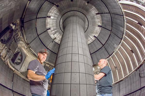 Two technicians inside National Spherical Torus Experiment Upgrade (NSTXU) vacuum vessel.